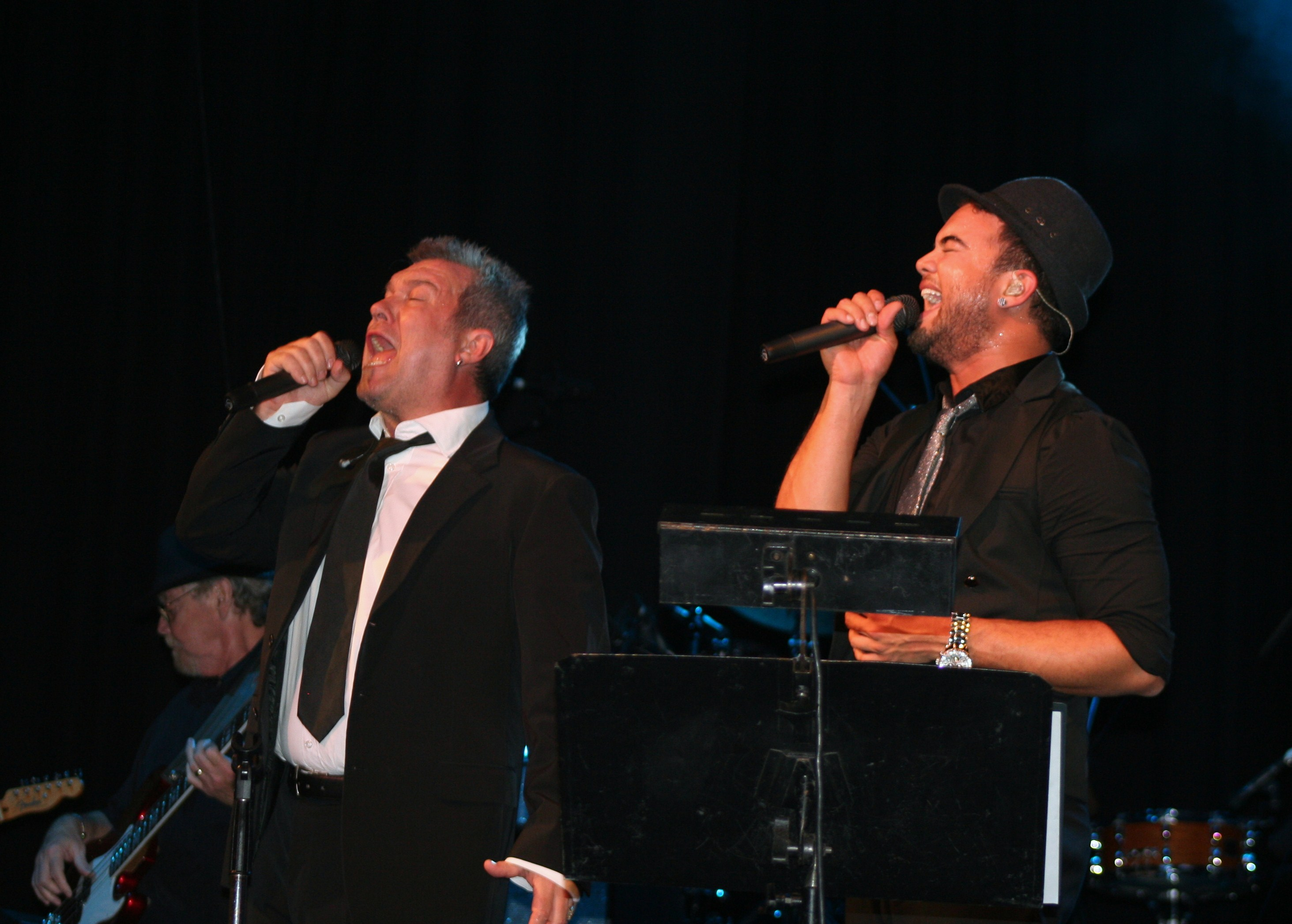 Jimmy Barnes makes a surprise appearance on Guy Sebastian's Memphis Tour 2008 where he sings with Guy backed by legendary Memphis Soul Musicians Steve Cropper and Donald "Duck" Dunn.